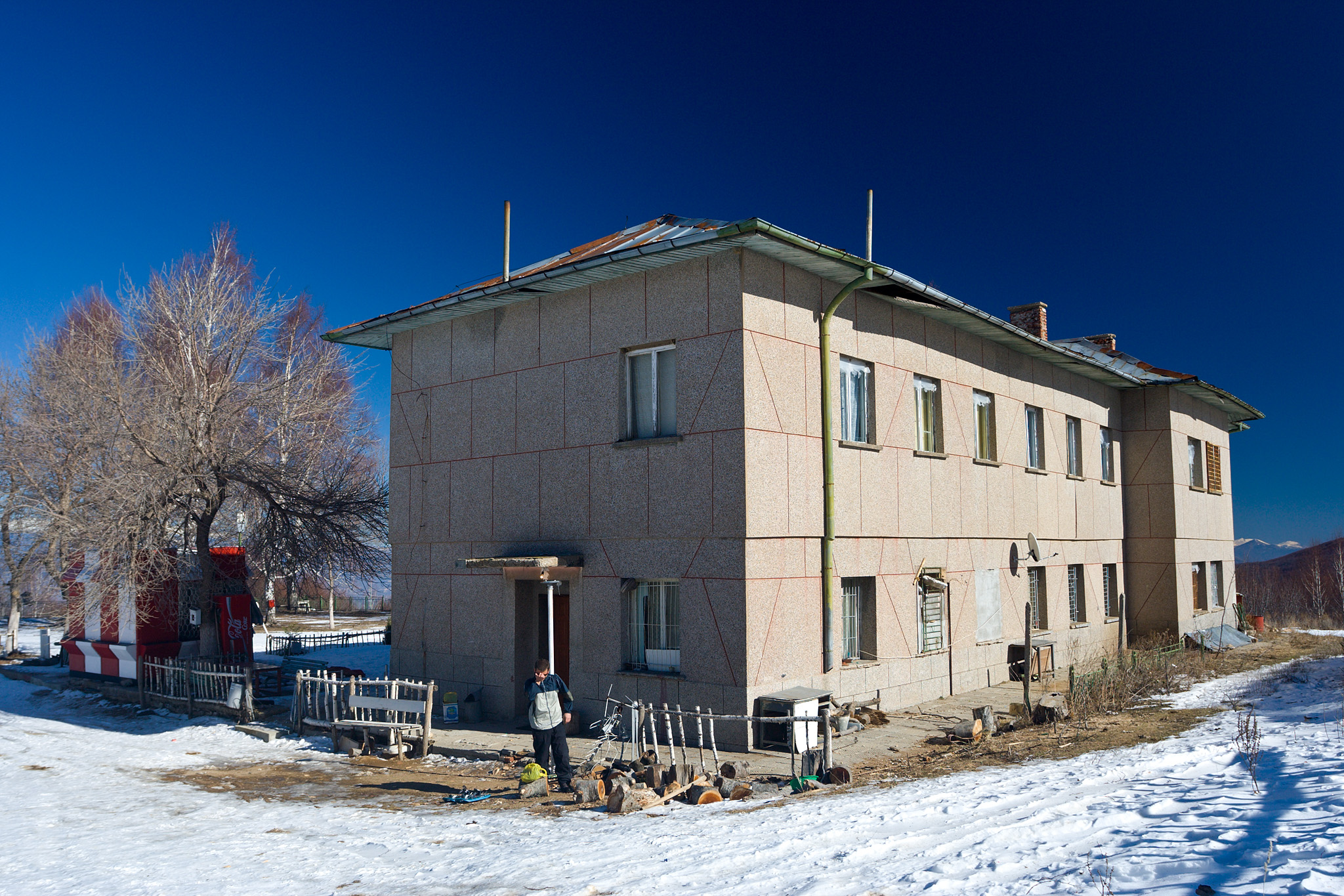 The Kongur refuge in Belasitsa mountain, Bulgaria